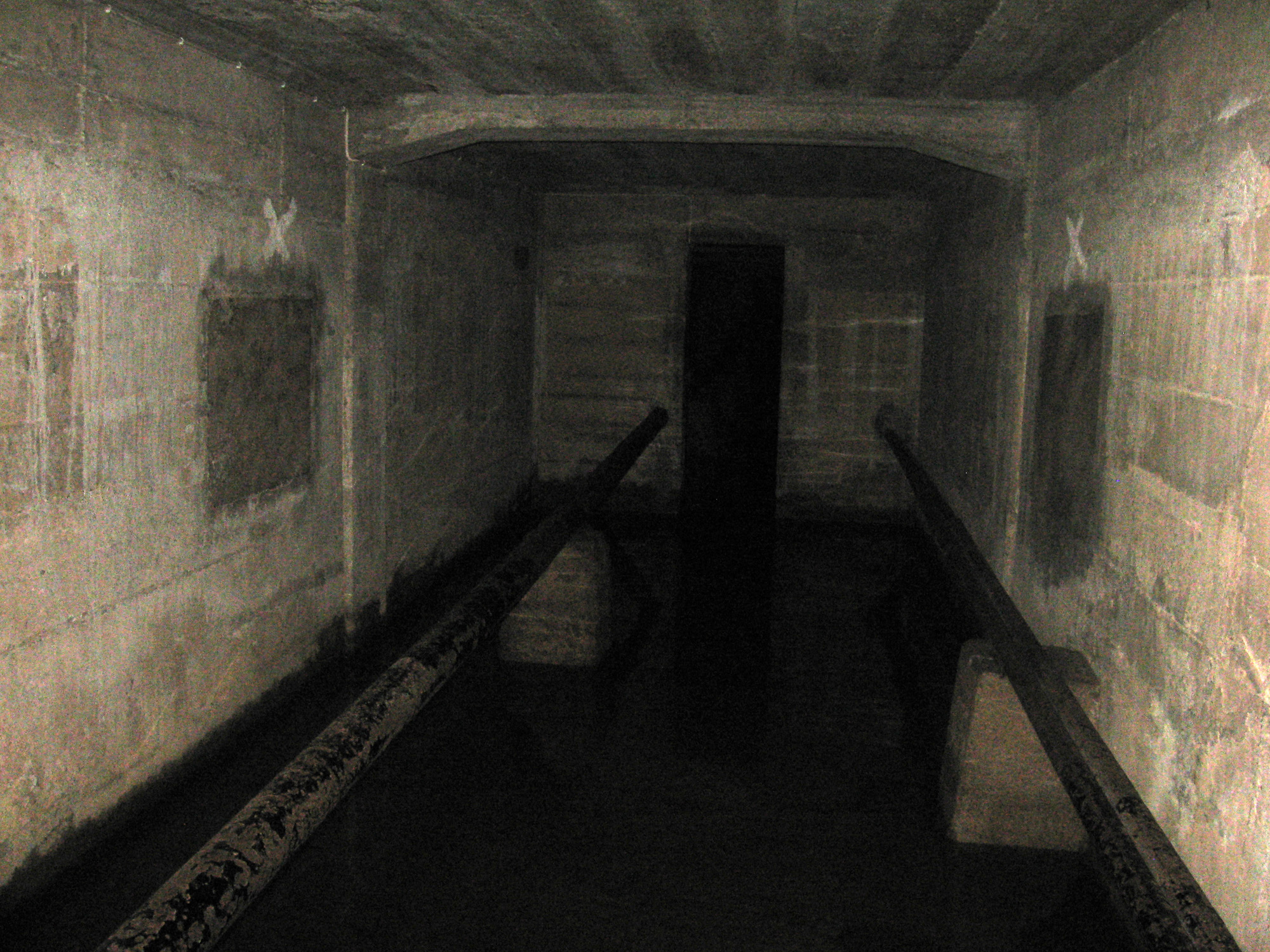 The basement of Lawang Sewu, a building in Semarang. It is said to be haunted by a kuntilanak.